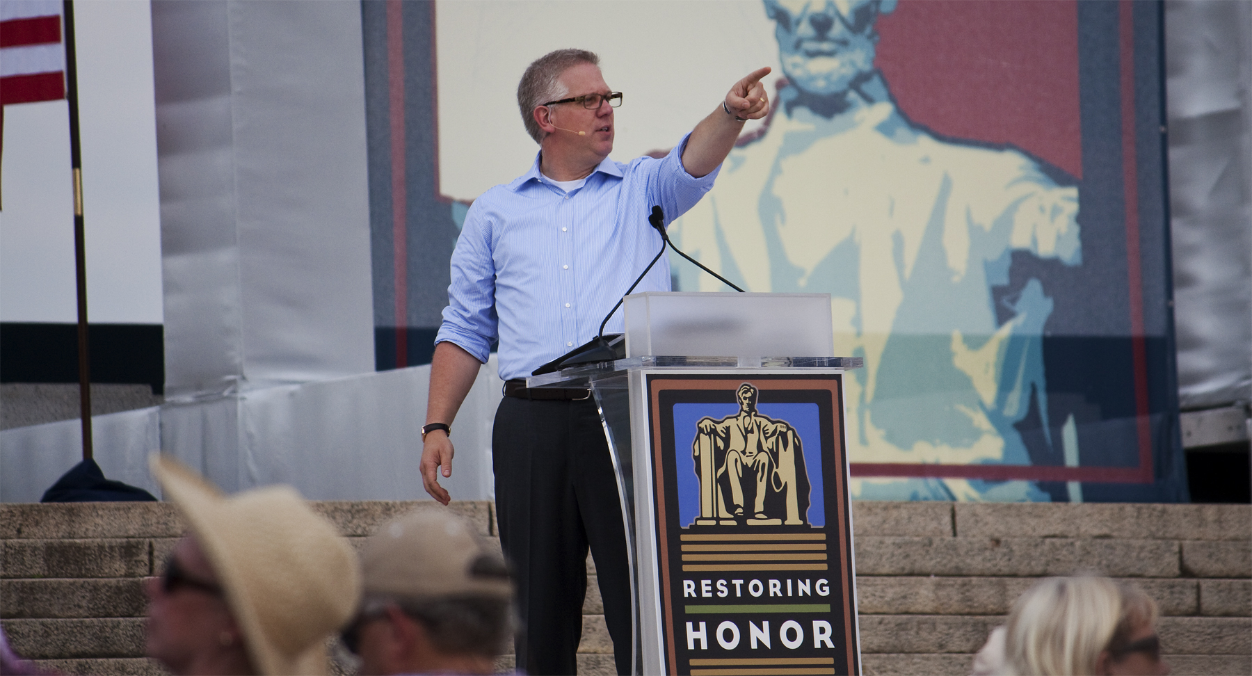 Restoring Honor rally Washington, D.C.